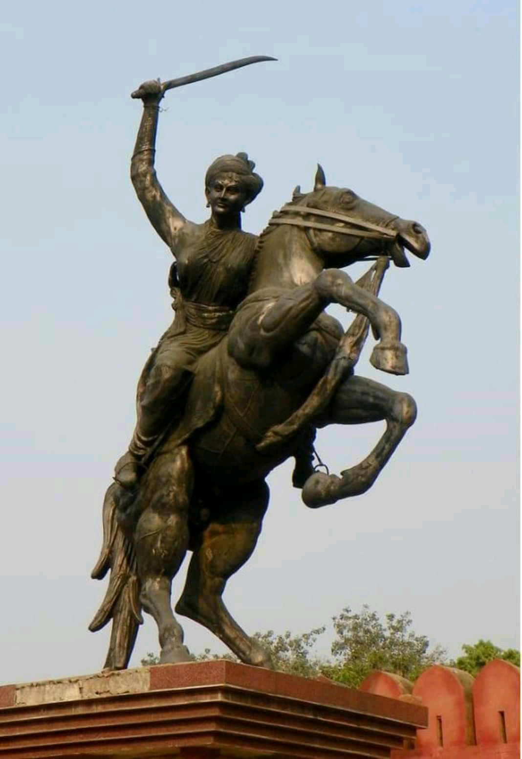 Jhalkari Bai Statue Uttar Pradesh